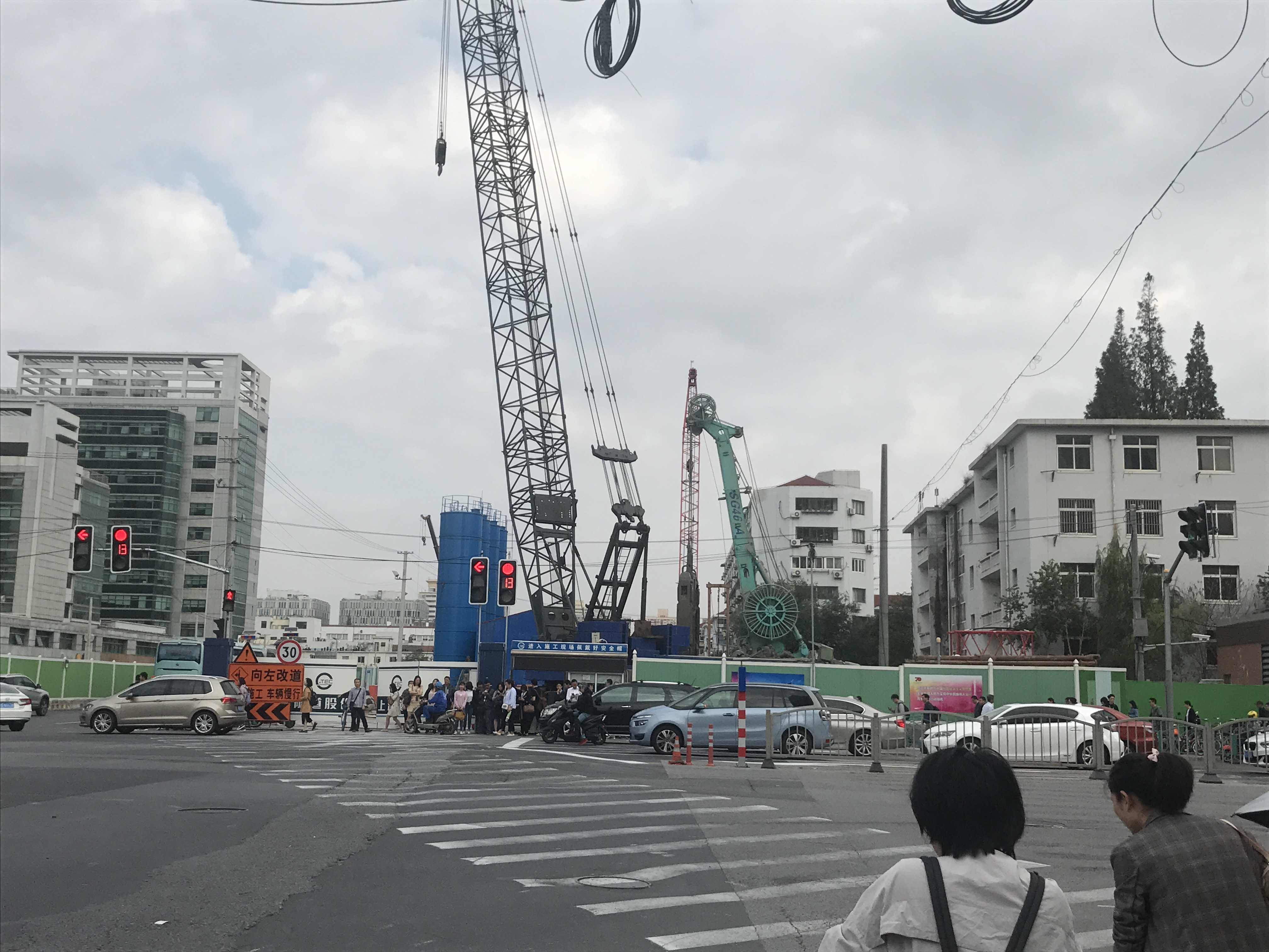 Construction site of Shanghai Metro Line 15 at Guilin Park station. The station already exists serving line 12 and it will be an interchange station for lines 12 and 15. A small part of exit 4 is visible on the right edge of the picture.